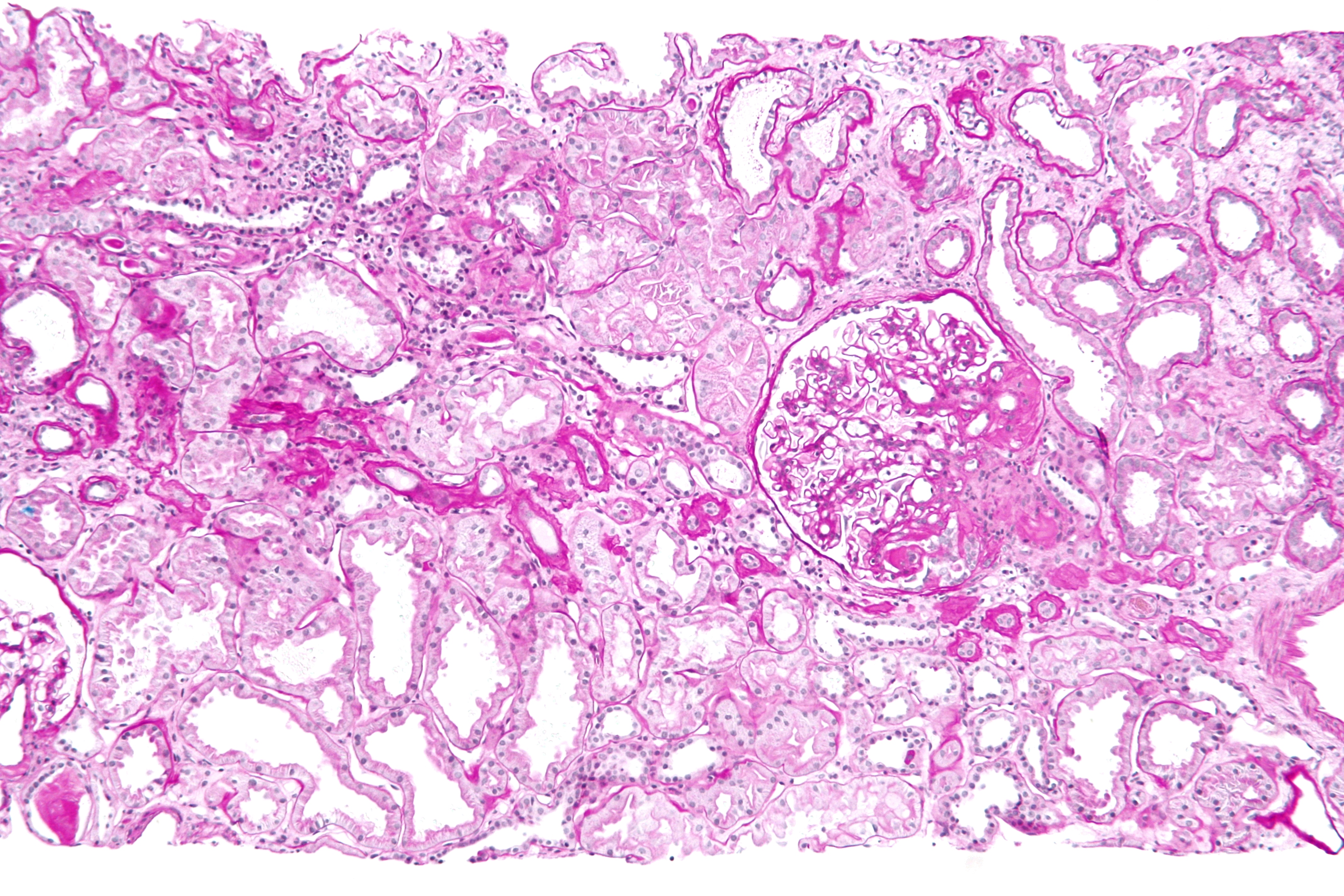 Intermediate magnification micrograph of focal segmental glomerulosclerosis, hilar variant. Focal segmental glomerulosclerosis is commonly abbreviated FSGS. PAS stain. Kidney biopsy. It presents as a nephrotic syndrome. Related images Intermed. mag. High mag. Very high mag.